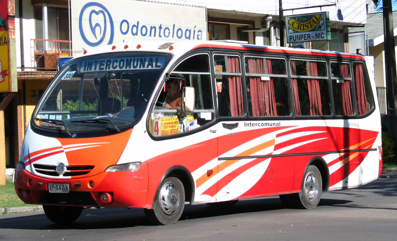 Metalpar Pucará Evolution IV minibus (reg. XP-64-02) with Mercedes-Benz LO 712 chassis in Chile. Built 2004, Intercomunal operator.